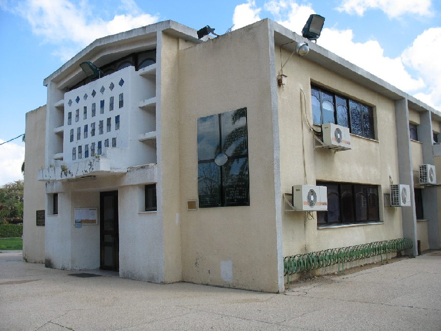 House in Merkez Shapira communal settlement, Israel